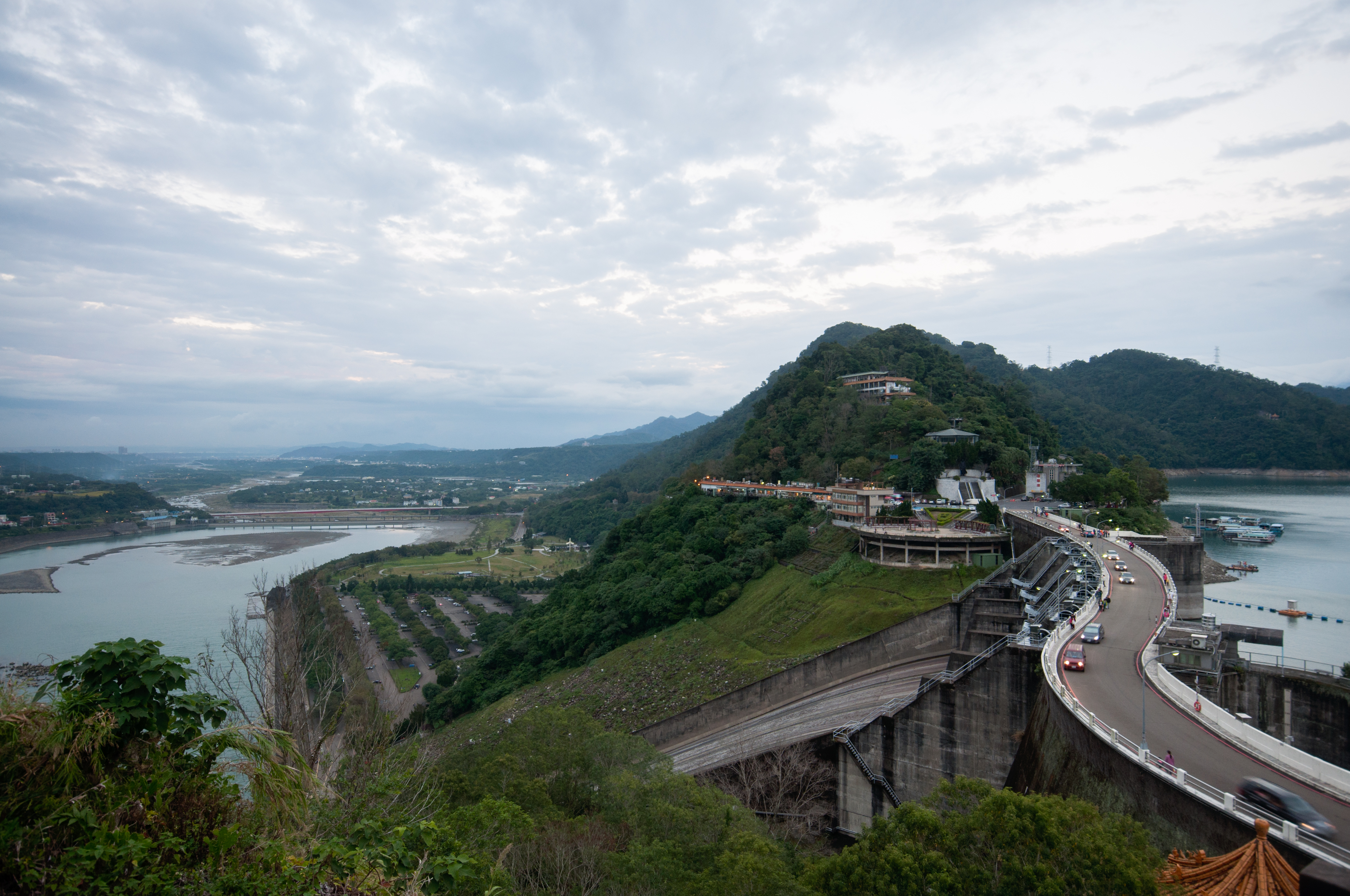 This is where the water supply for Taoyuan County lies.